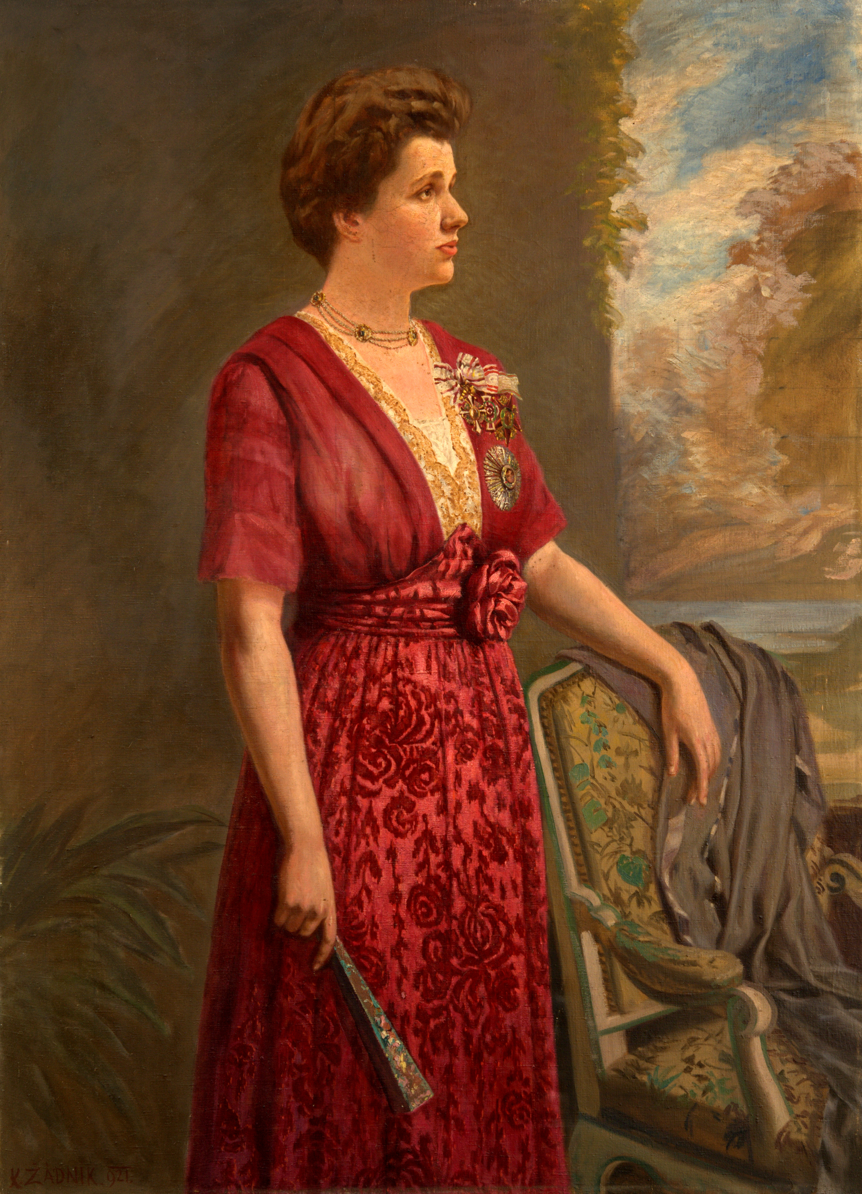 Portrait of Frieda Countess Logothetti née Baroness Zwiedinek of Südenhorst (1866-1945) Nikon D300 + AF-S Micro Nikkor 60mm f/2.8G ED